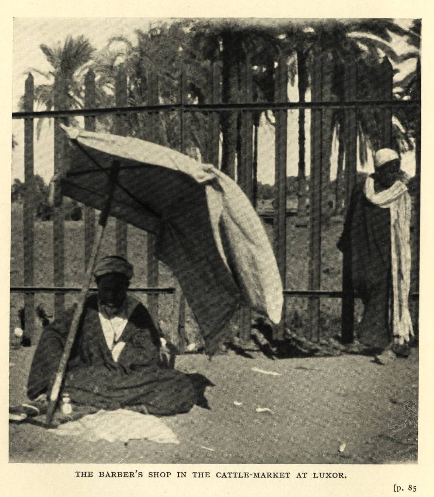 A man is seated on the ground under an umbrella. Another man is leaning against a fence in the background.